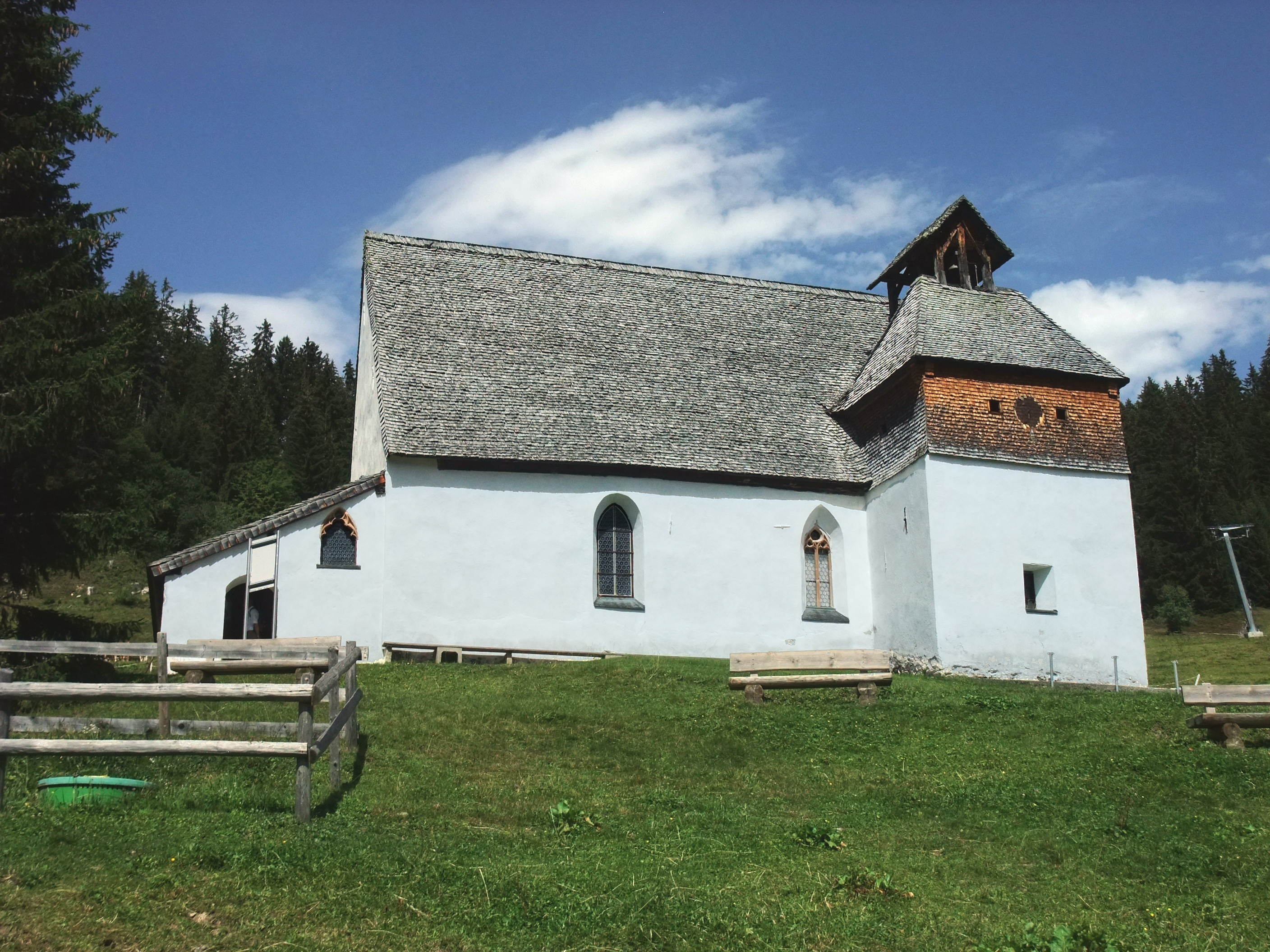 Montafon is a 39 km long valley situated in the westernmost federal state Vorarlberg of Austria. View to the Church St. Agatha in Kristberg.